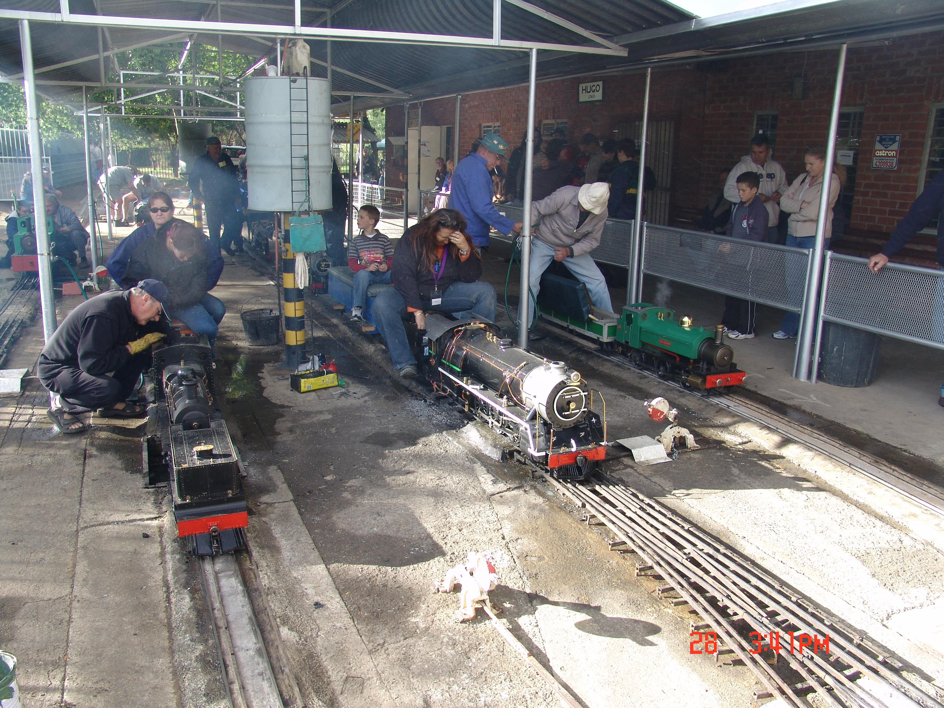 Garratt GB 1 1/2 Inch Scale, Constructed By Davey McFarlane. Being run at Modenso Park. (Bloemfontein Society of Model Engineers)